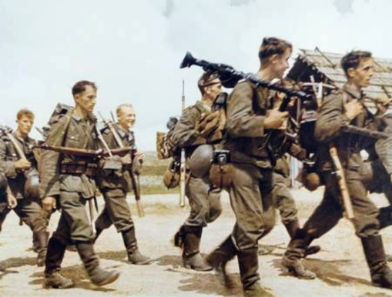 German soldiers in Russia. Most carry a 98k carbine, the one in the center carries a MG 34 machine gun.